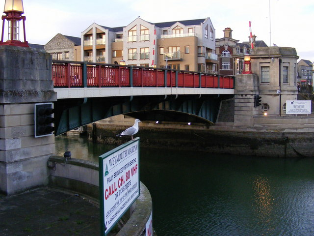 Weymouth Harbour Bridge This bridge lifts on both sides to allow larger vessels through between the inner and outer harbours.